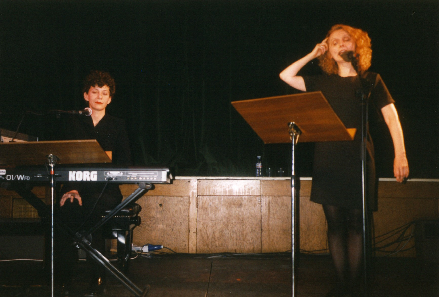 Marie Goyette (left) and Dagmar Krause performing at the London Musicians Collective Festival in London in 1997.